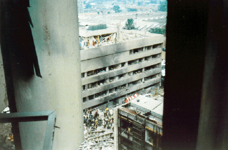 Terrorists bombed the US Embassy in Nairobi, Kenya in August 1998, leaving hundreds dead and wounded.